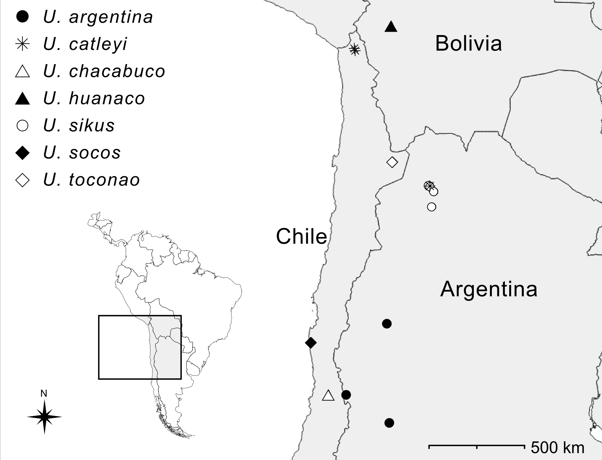 Distribution of Unicorn species based on published collection records. Inset shows map area within South America. Sources: Platnick, N. I. & Brescovit, A. D. (1995). "On Unicorn, a new genus of the spider family Oonopidae (Araneae, Dysderoidea)". American Museum Novitates: 1–12. Gonzales Reyes, A. X., Corronca, J. A., & Cava, M. B. (2010). "New species of Unicorn Platnick & Brescovit (Araneae, Oonopidae) from north-west Argentina". Munis Entomology & Zoology 5: 374–379. Izquierdo, Matías A.; Rubio, Gonzalo D (2011). "Male genital mutilation in the high-mountain goblin spider, Unicorn catleyi". Journal of Insect Science 11.